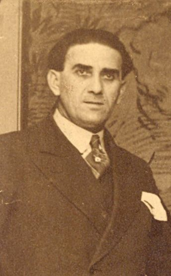 Bulgarian actor and theatre director Georgi Stamatov